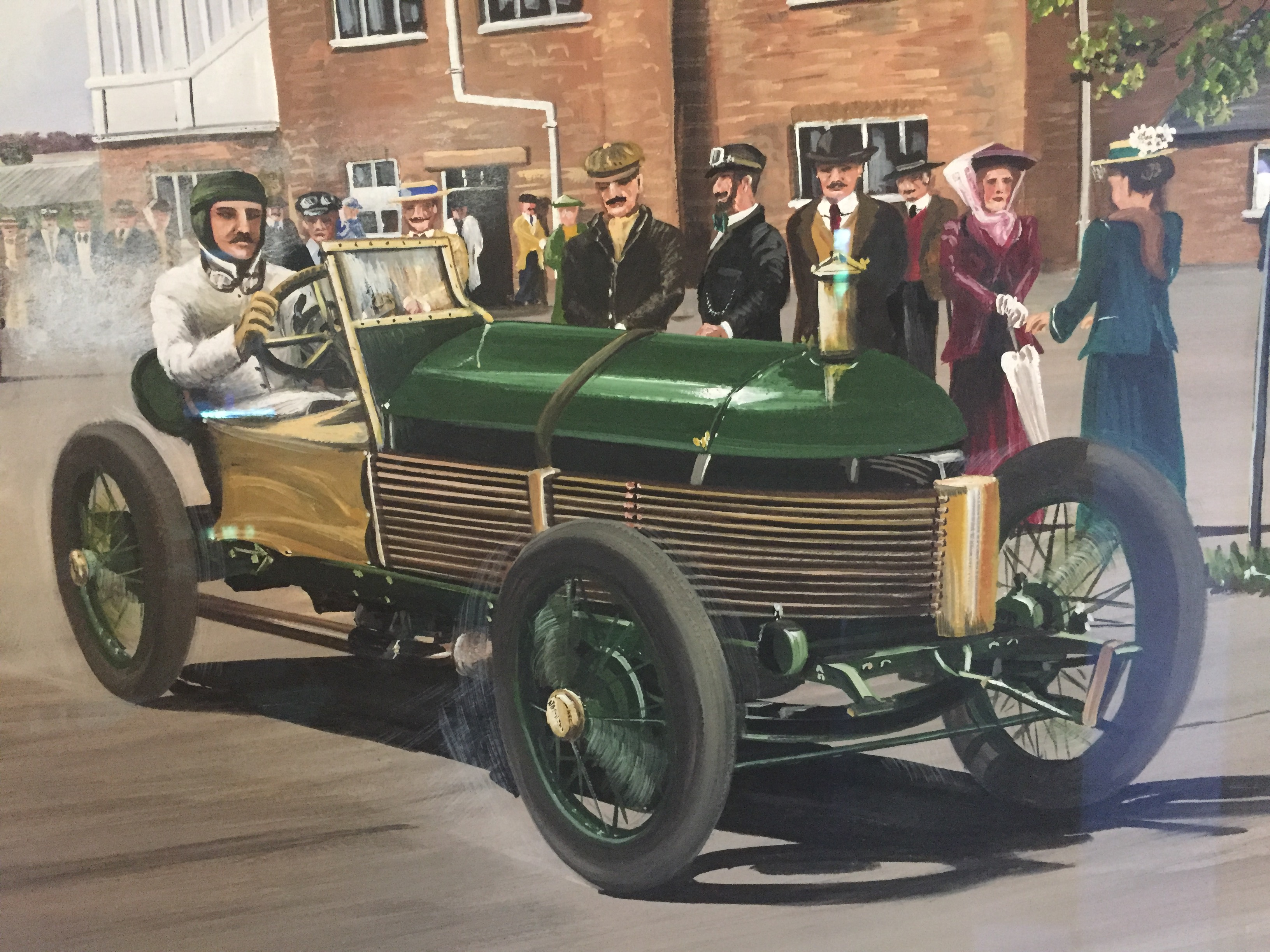 This is a painting of Frank Newton Driving 'The Meteor' during the Brooklands Race